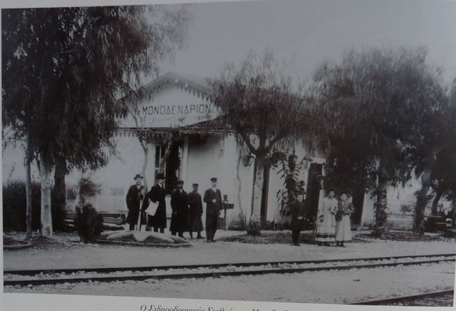 Monodendri station of the SPAP railway in Greece